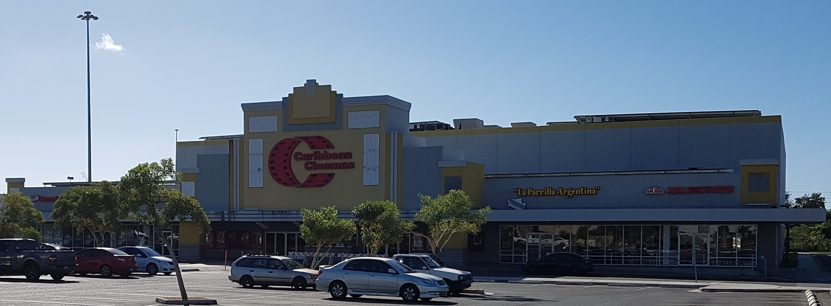 Caribbean Cinemas, mirando al sur, en Plaza del Caribe, Bo. Playa, Ponce, PR (20181230 094934A)